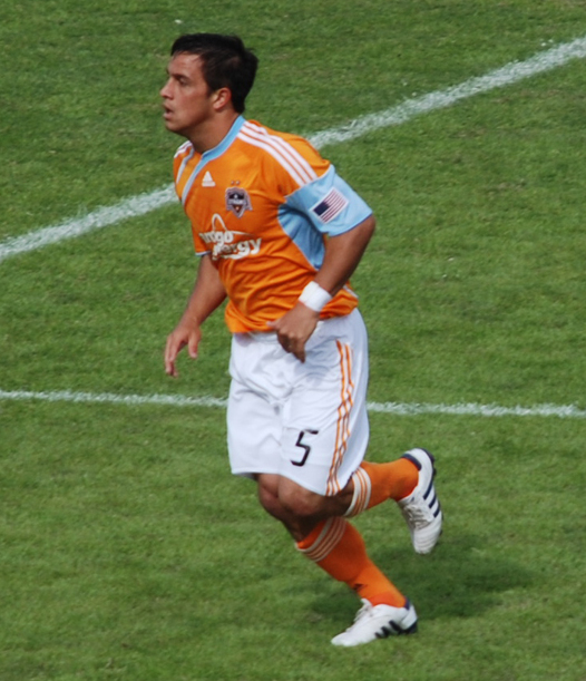 Houston v Chivas USA